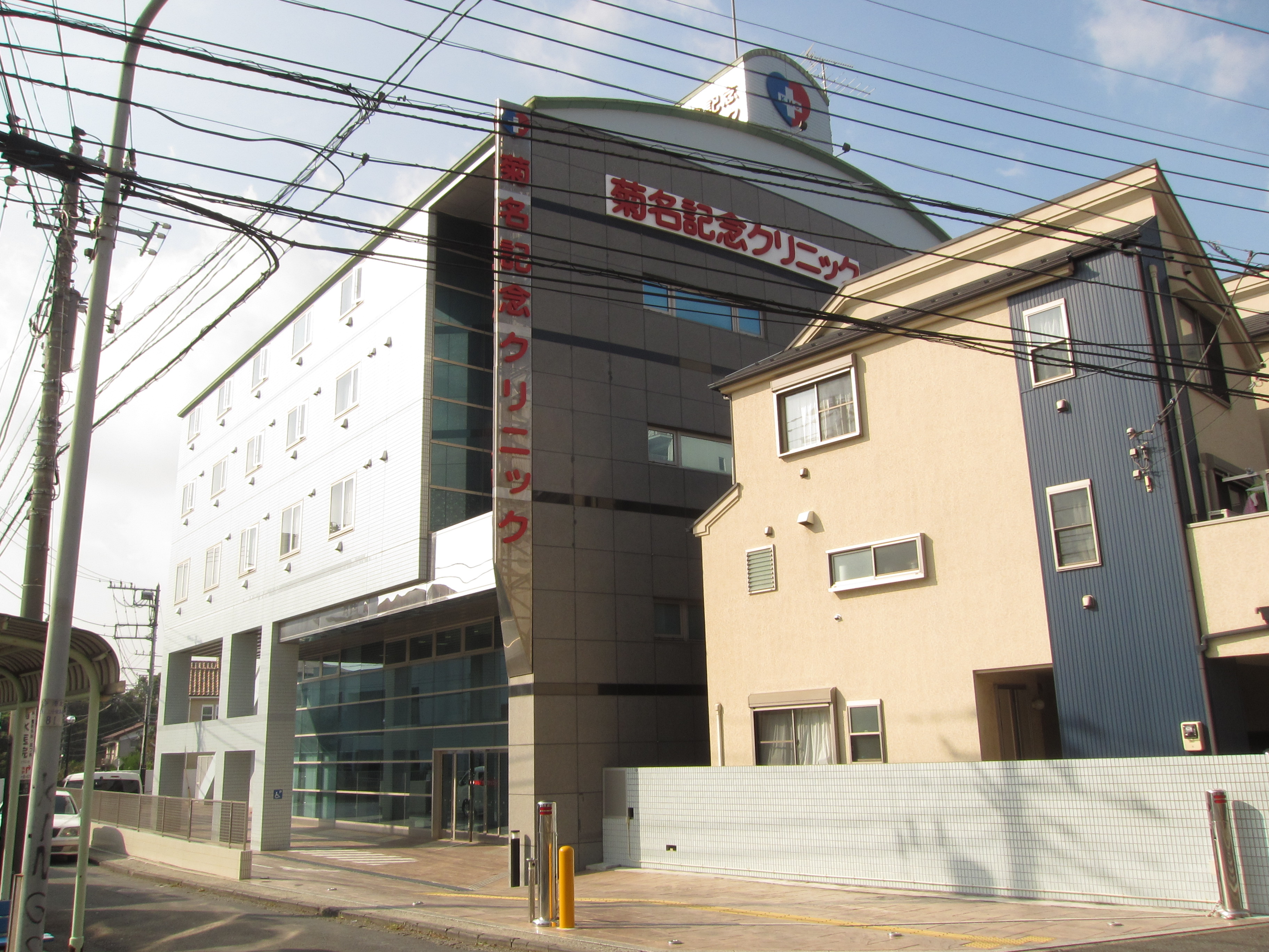 Kikuna Memorial Hospital Memorial Clinic